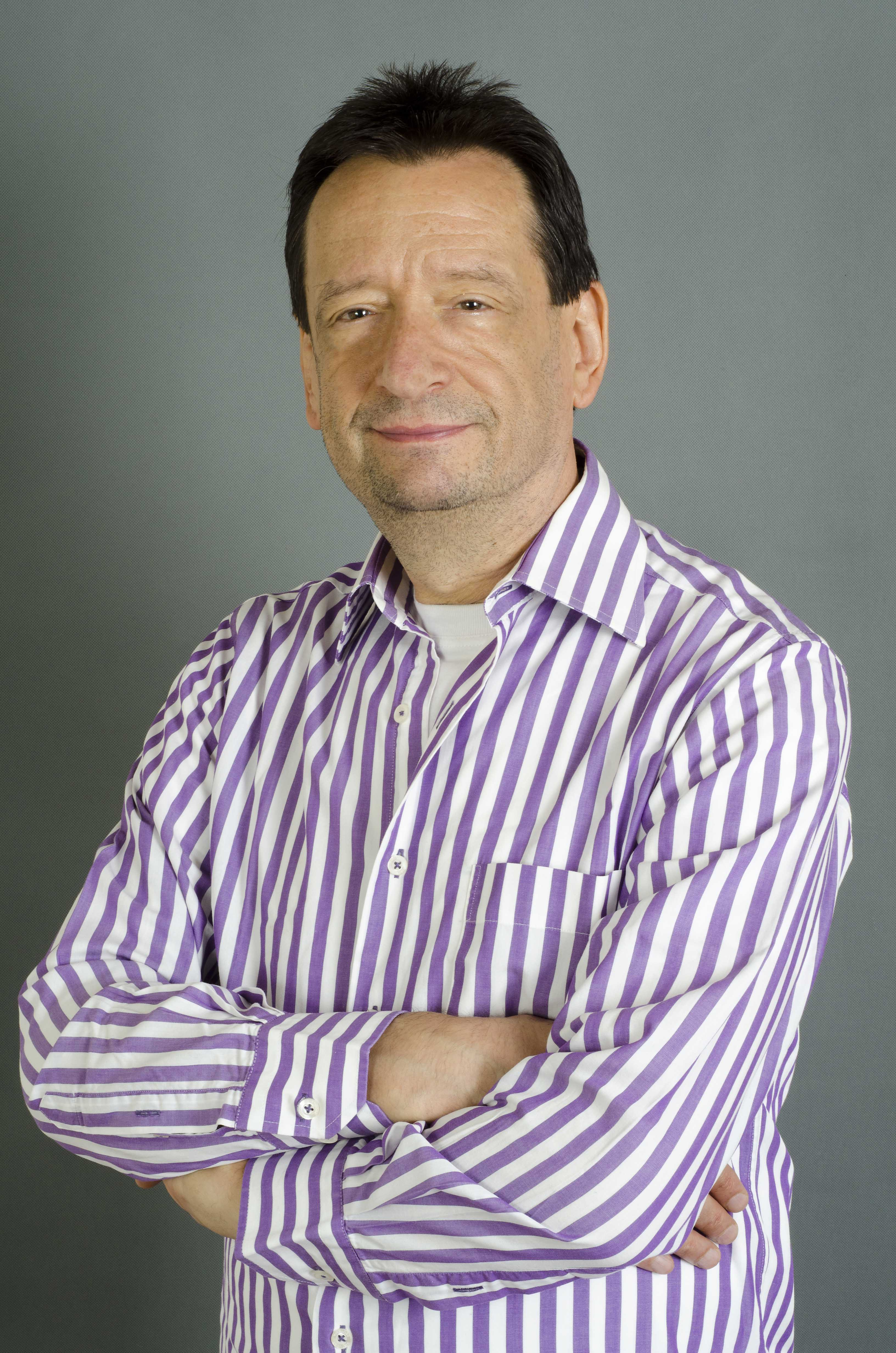 Márton Karinthy